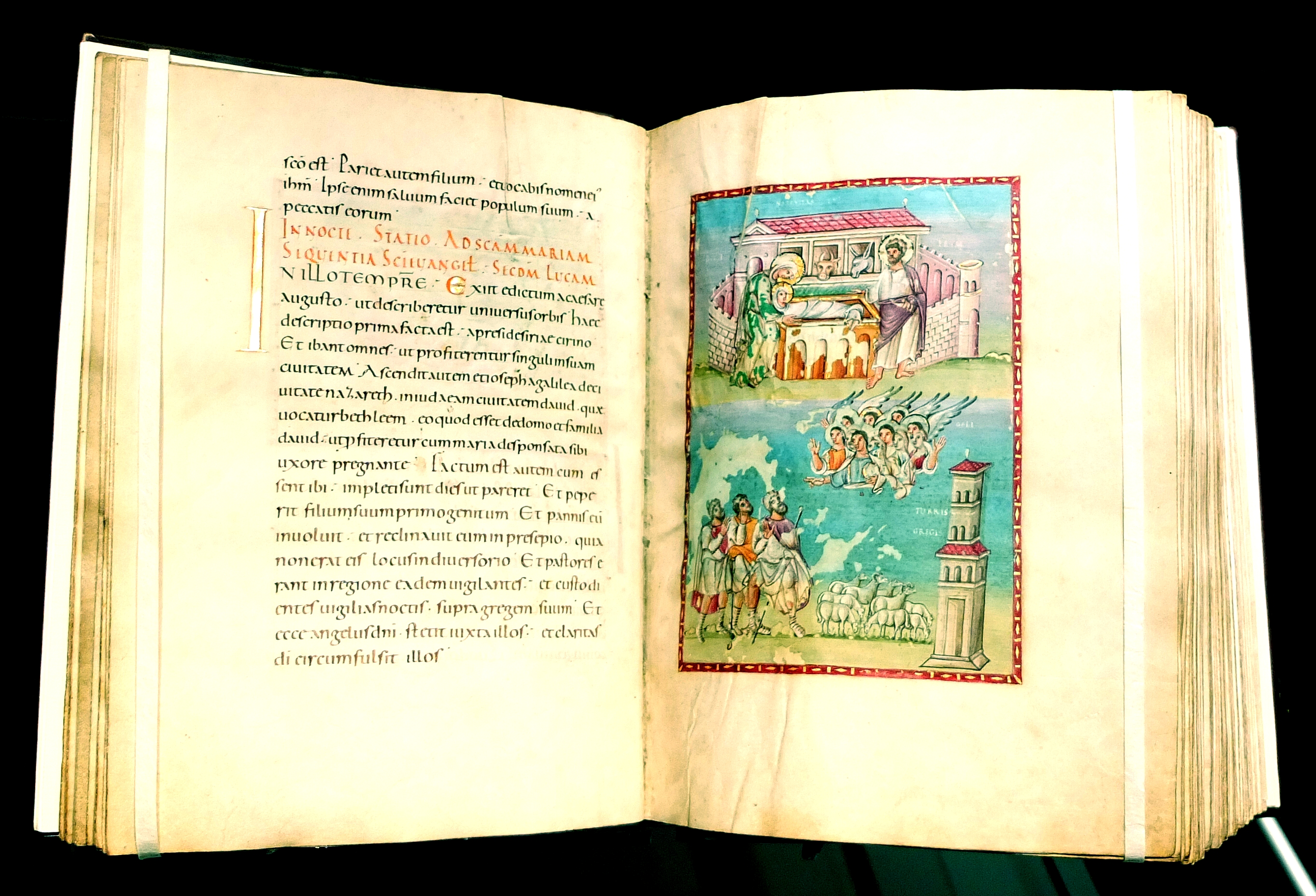 Codex Egberti (980-993), fol. 13: Nativity of Jesus, the Annunciation to the shepherds. Schatzkammer of Stadtbibliothek Trier (Germany). Lit.: Gunther Franz (Hrsg.): Der Egbert-Codex. Das Leben Jesu. Ein Höhepunkt der Buchmalerei vor 1000 Jahren. Katalog zur Ausstellung in der Schatzkammer der Stadtbibliothek Trier vom 27. April 2005 bis 8. Januar 2006. Theiss, Stuttgart 2005, ISBN 3-8062-1951-6 (= Ausgabe für die Wissenschaftliche Buchgesellschaft, Darmstadt 2005, ISBN 3-534-18759-8), S. 99-101.